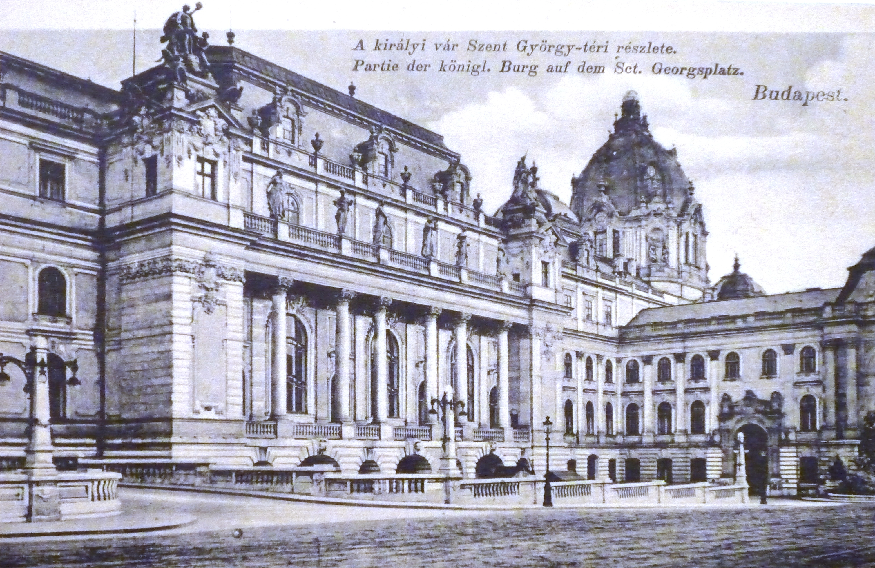 The outer courtyard of Buda Castle with the facade of the Grand Ballroom